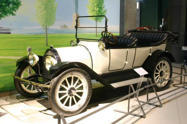 1914 Chevrolet H-4 Baby Grand. Photo by DougW of Remarkable Cars DougW